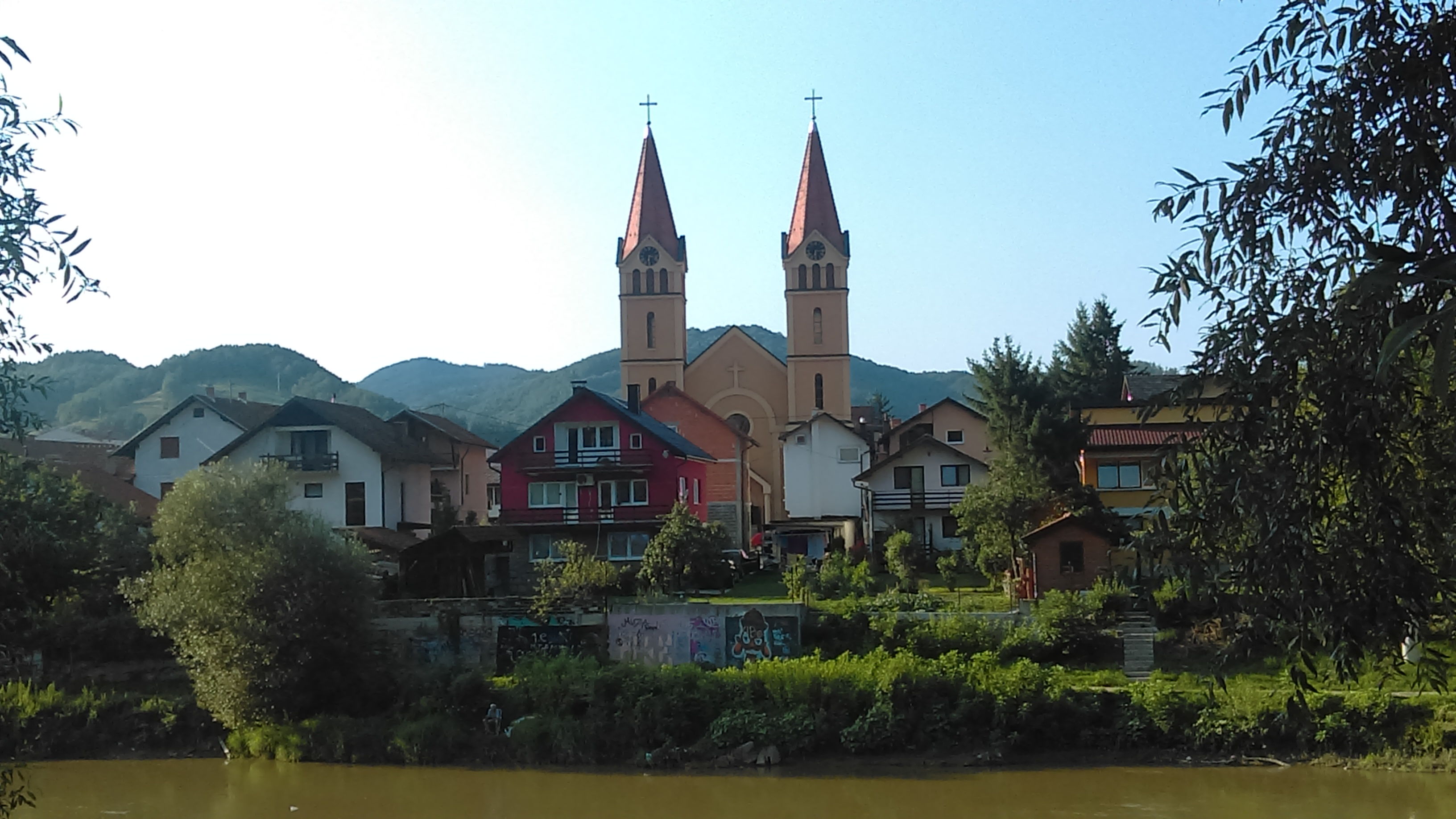 Žepče, church of St.Anthony of Padua